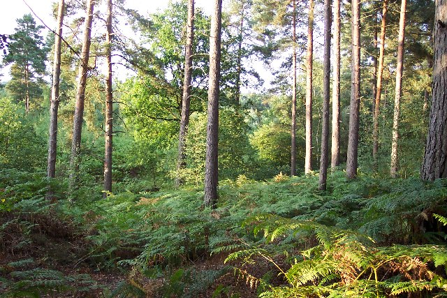 A changing landscape. Looking north from the Mytchett to Pirbright road. Ten years ago from this spot I'd have had a picture of an open heathland valley. Since then the trees – a few pines but mostly birch scrub – have thrived and have largely blocked off the view. The woodland scene is attractive enough in its own right but heathland is a scarce and valuable natural habitat and needs to be conserved.